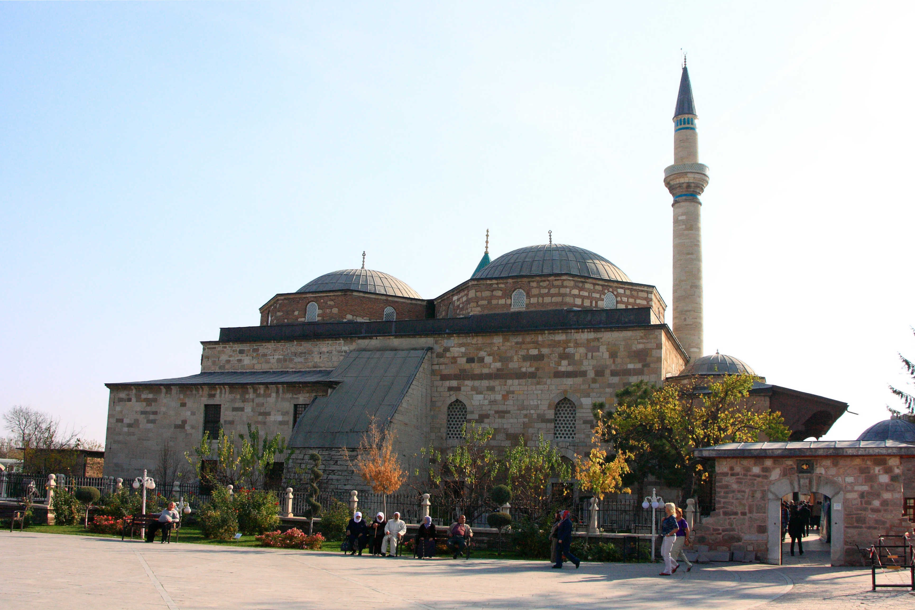 Entrance of the Mevlana museum and grave of Rumi at Konya, Turkye.